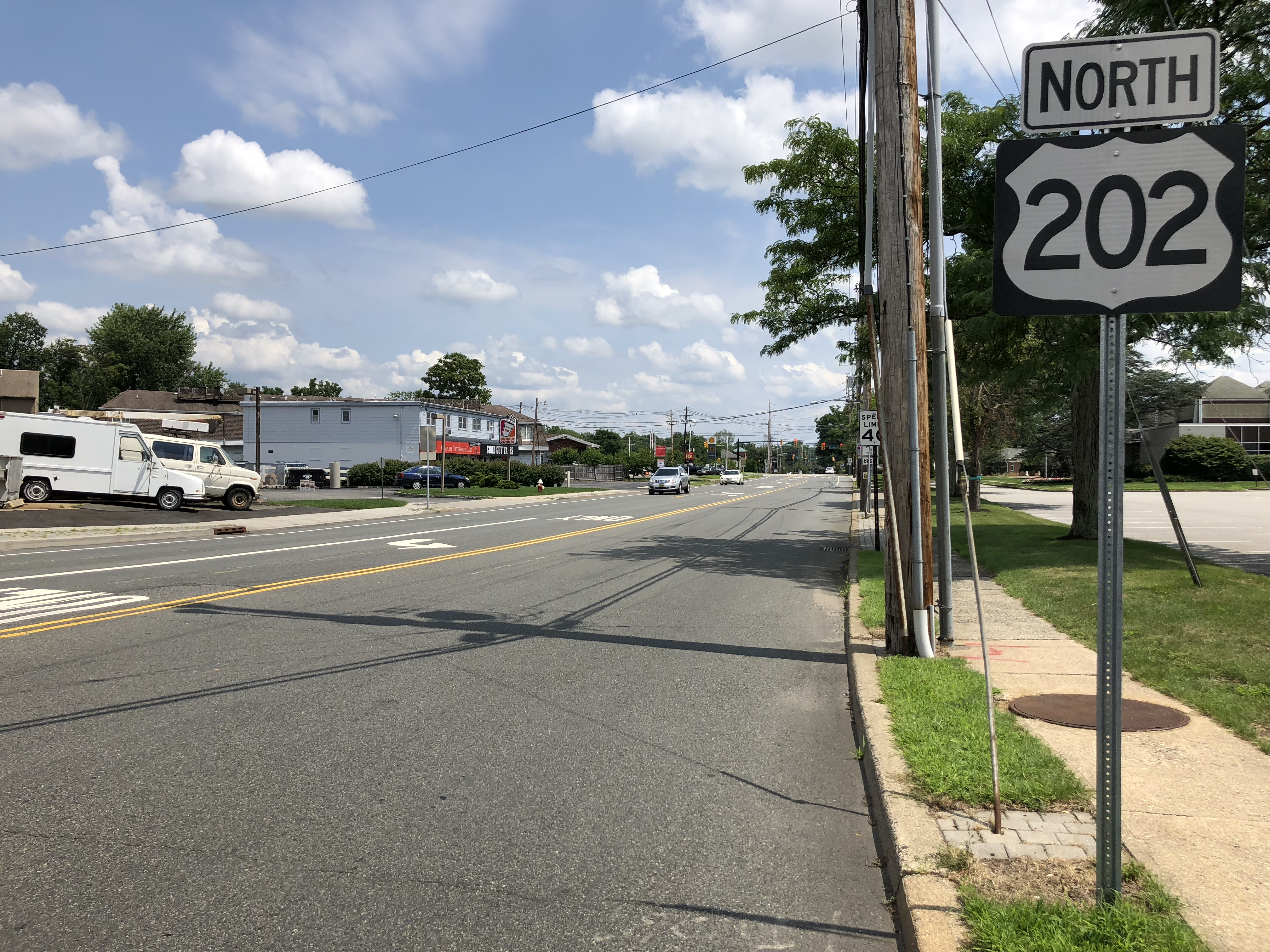 View north along U.S. Route 202 (Boonton Turnpike) at Main Street in Lincoln Park, Morris County, New Jersey